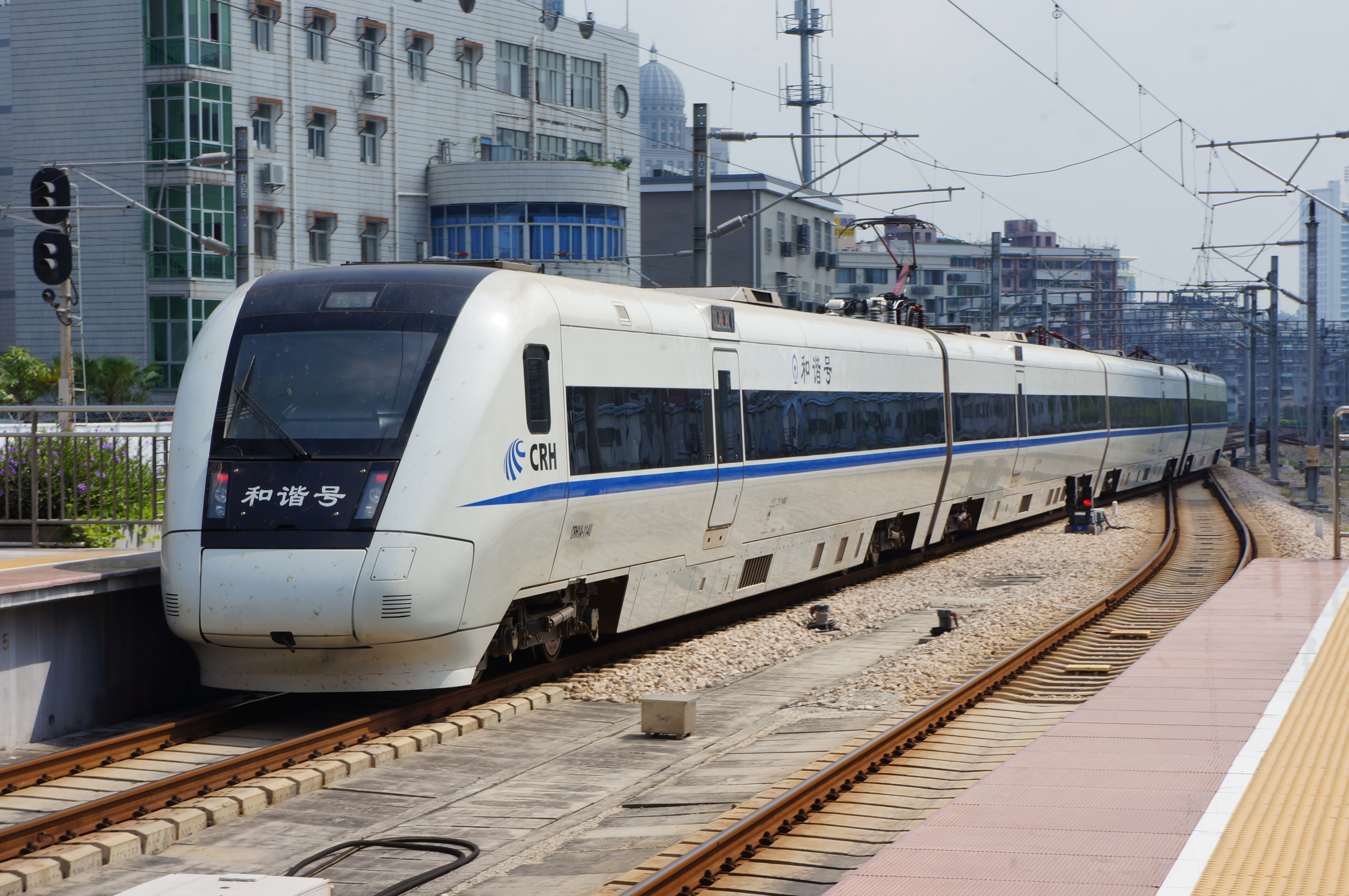 201708 CRH1A-1140 operating D6208 (Xiamen to Fuzhou) at Xiamen Station